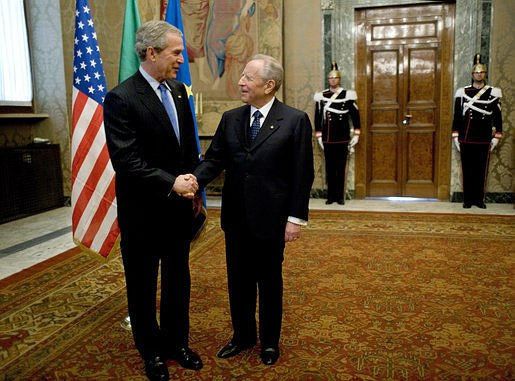 President George W. Bush is greeted upon his arrival to Quirinale Palace by Italy's President Carlo Azeglio Ciampi Thursday, April 7, 2005. President Bush made the courtesy call while in Rome for the Friday funeral of Pope John Paul II. Original source